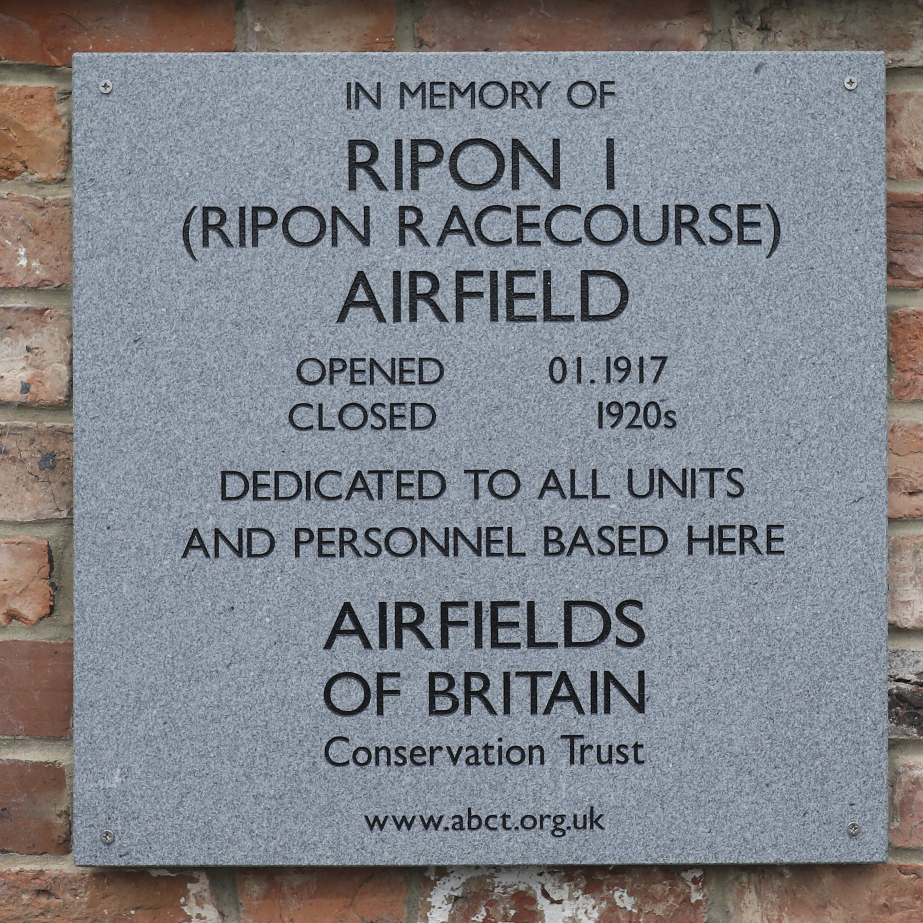 The plaque at Ripon Racecourse. The plaque is affixed to the oldest building at the racecourse; it was extant at the time that the RFC and the RAF flew from the site.